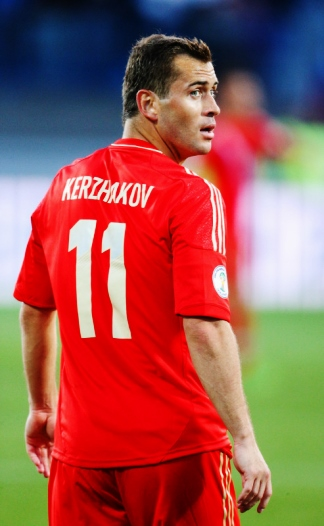 Aleksandr Kerzhakov